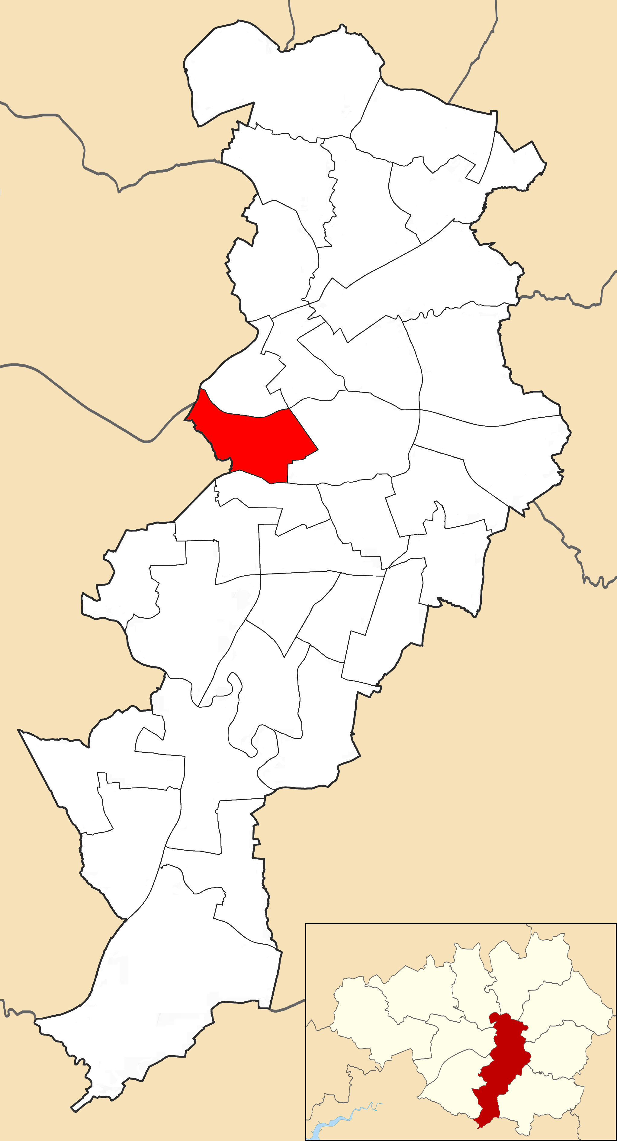 Map showing location of Hulme ward within Manchester City Council.